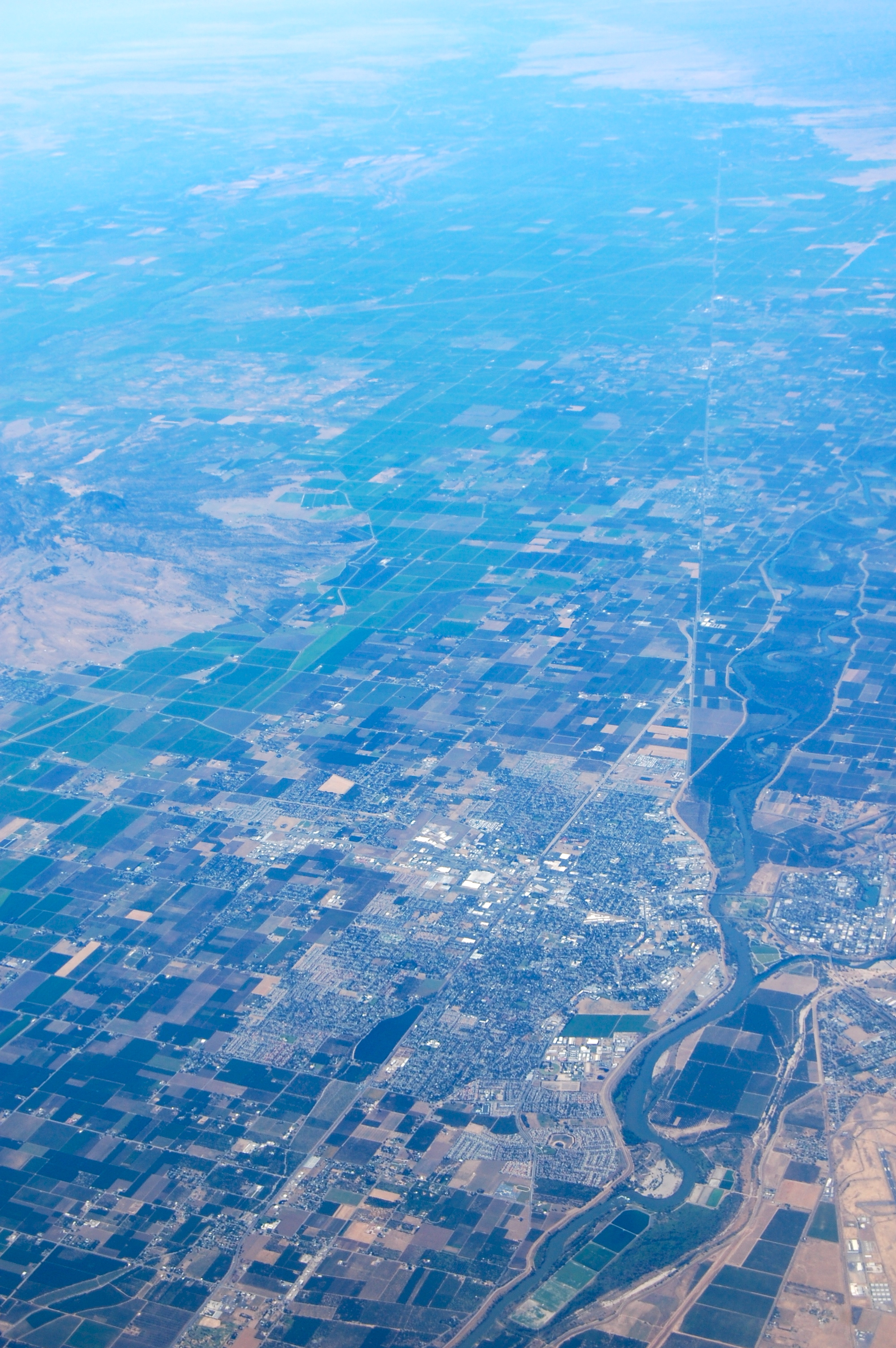 Yuba City and the Feather River, in Sutter County, northern California.